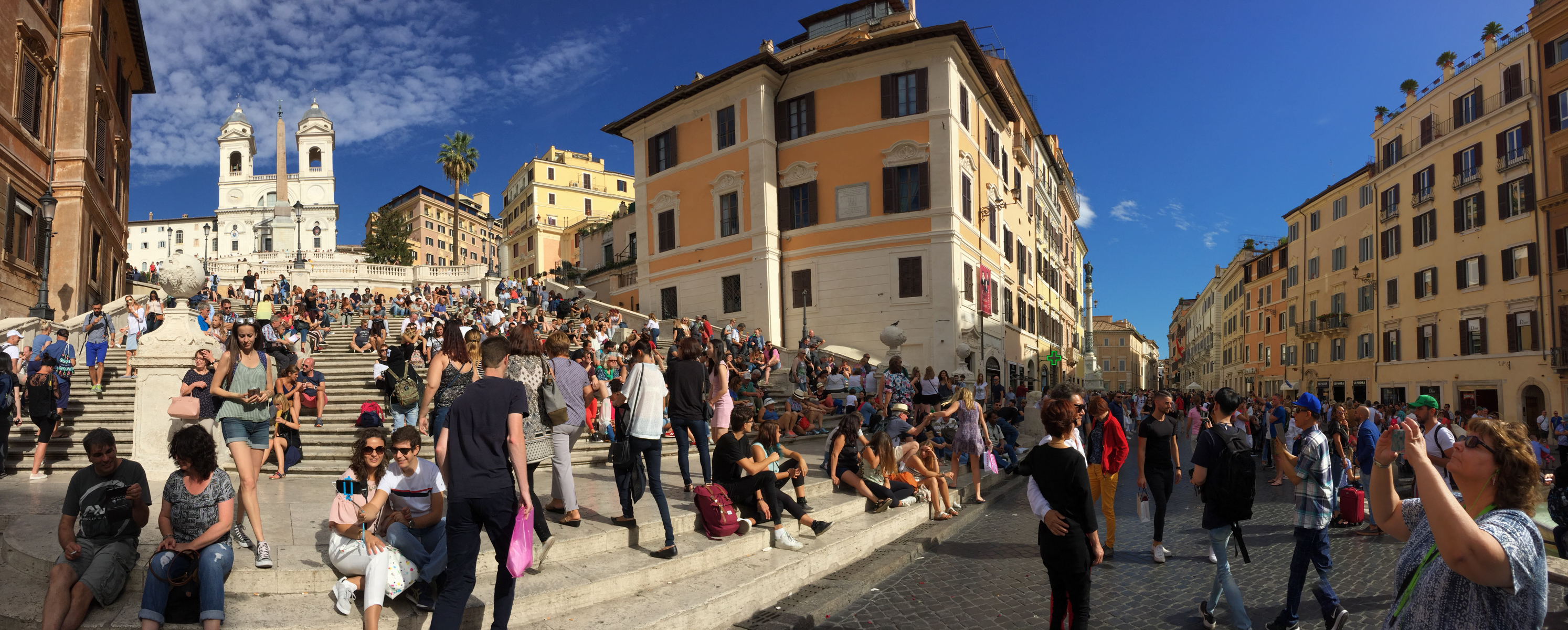 Trip to Naples and Rome September 2017